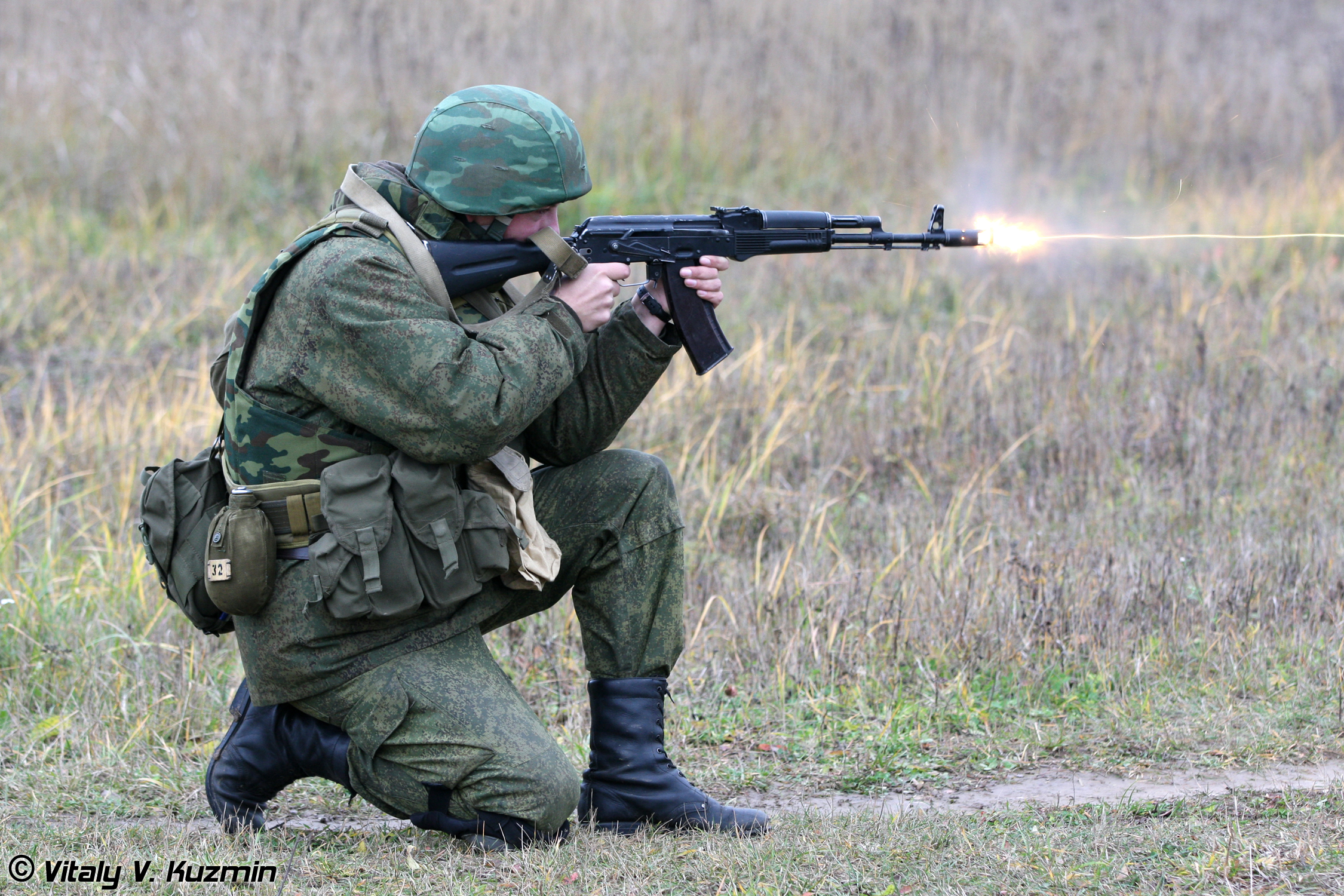 AK-74M shooting